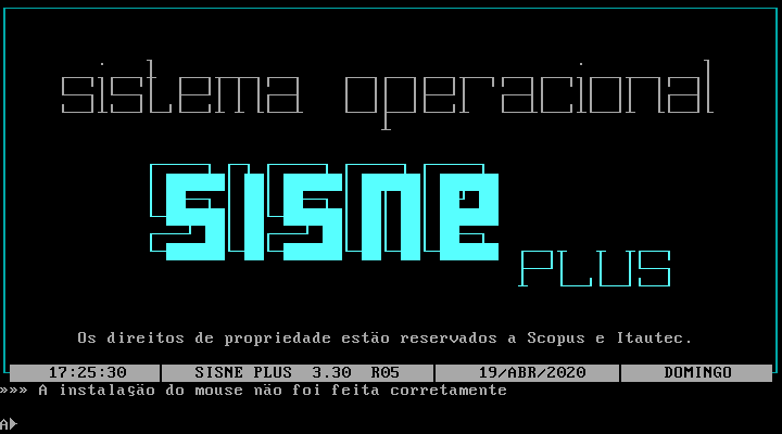 Scopus e Itautec sistema operacional SISNE Plus V3.30 R05